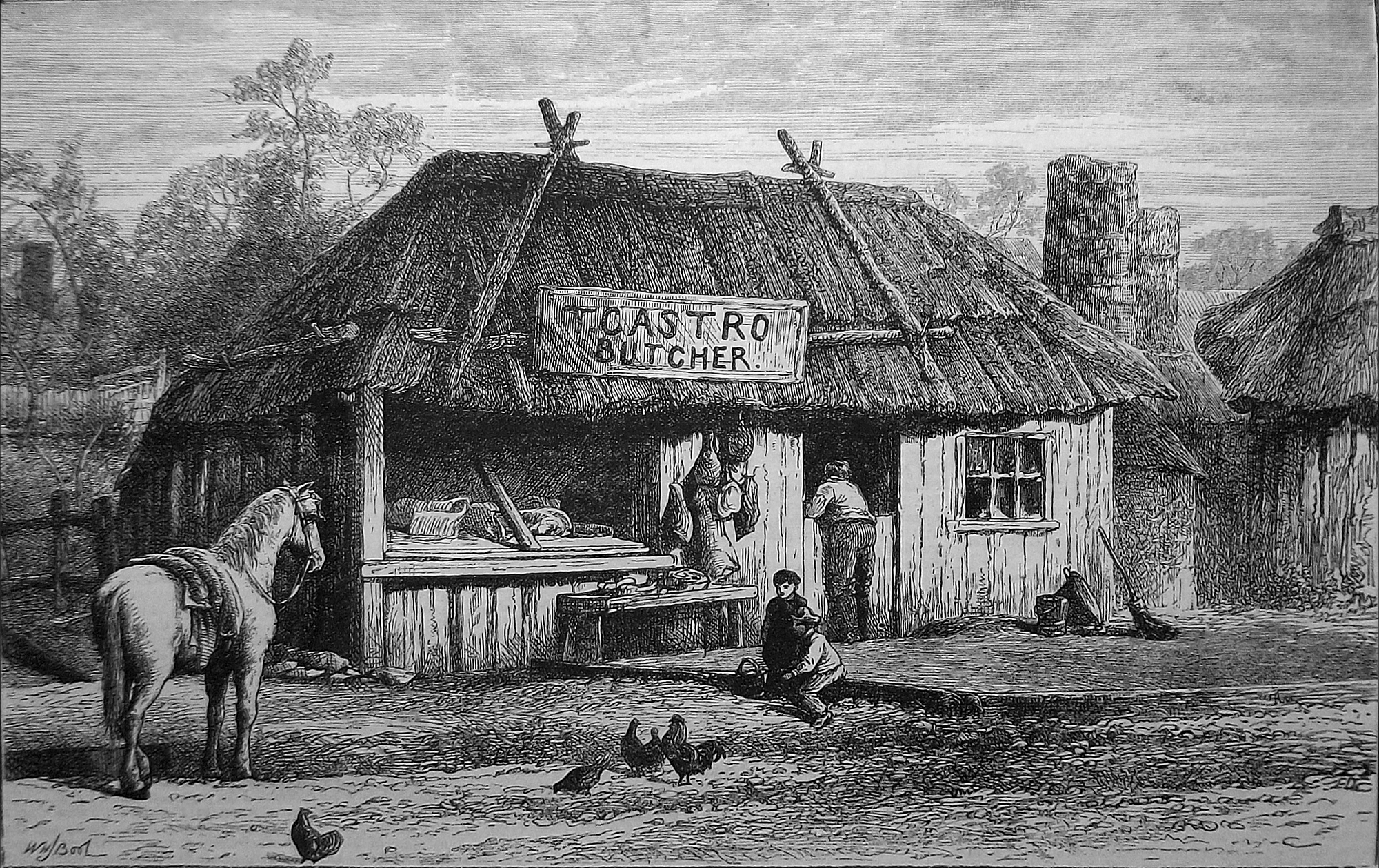 Sketch of Thomas Castro's (Arthur Orton) butcher shop in Wagga Wagga, New South Wales, Australia which may have been sketched before or during the Tichborne Case.